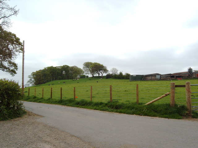 Road near Cargenbridge